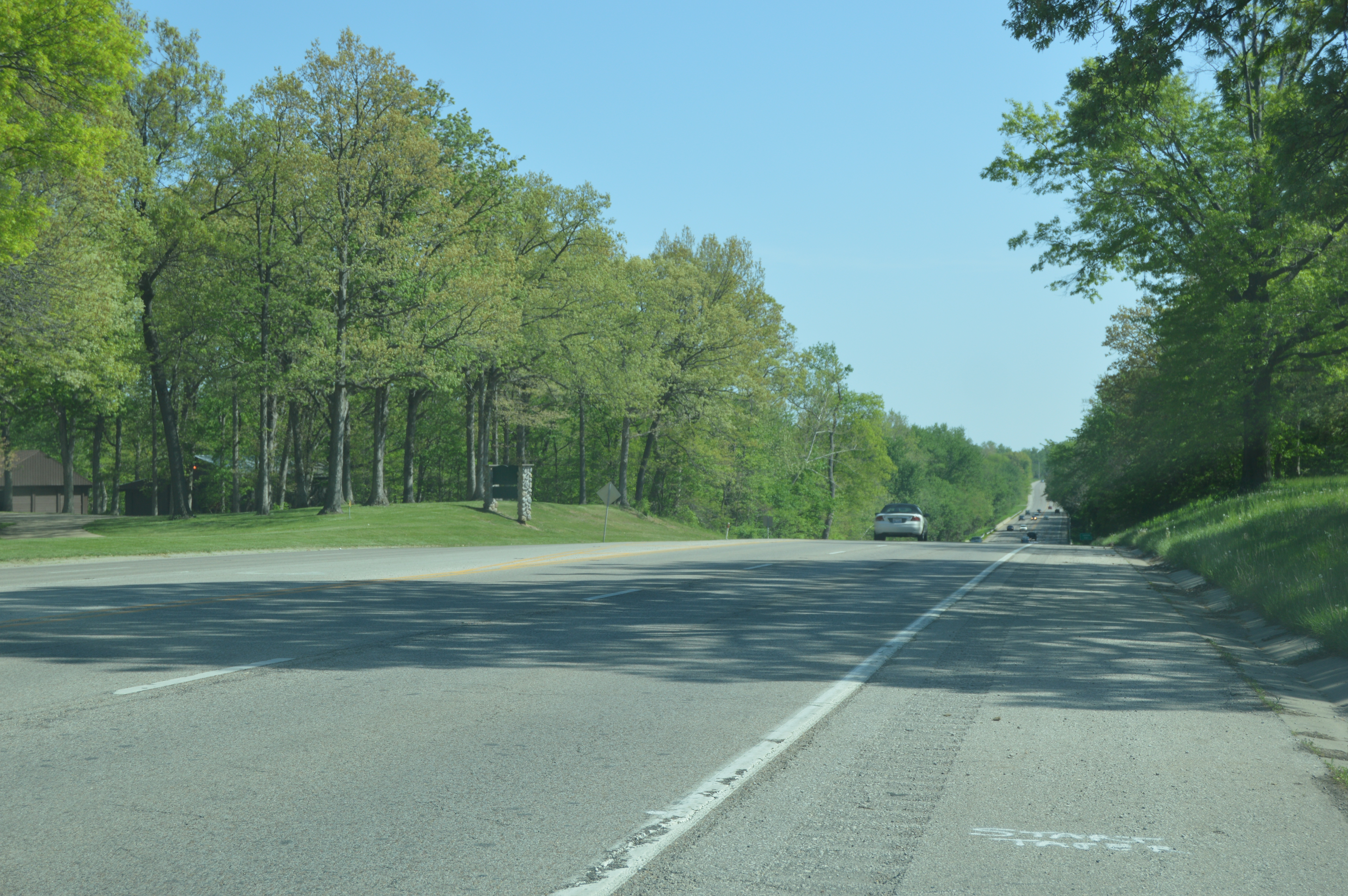 Looking southward along Peoria Road, the former U.S. Route 66, from Cabin Smoke Trail in Springfield, Illinois, United States. This section of the highway is listed on the National Register of Historic Places as "Route 66 by Carpenter Park".